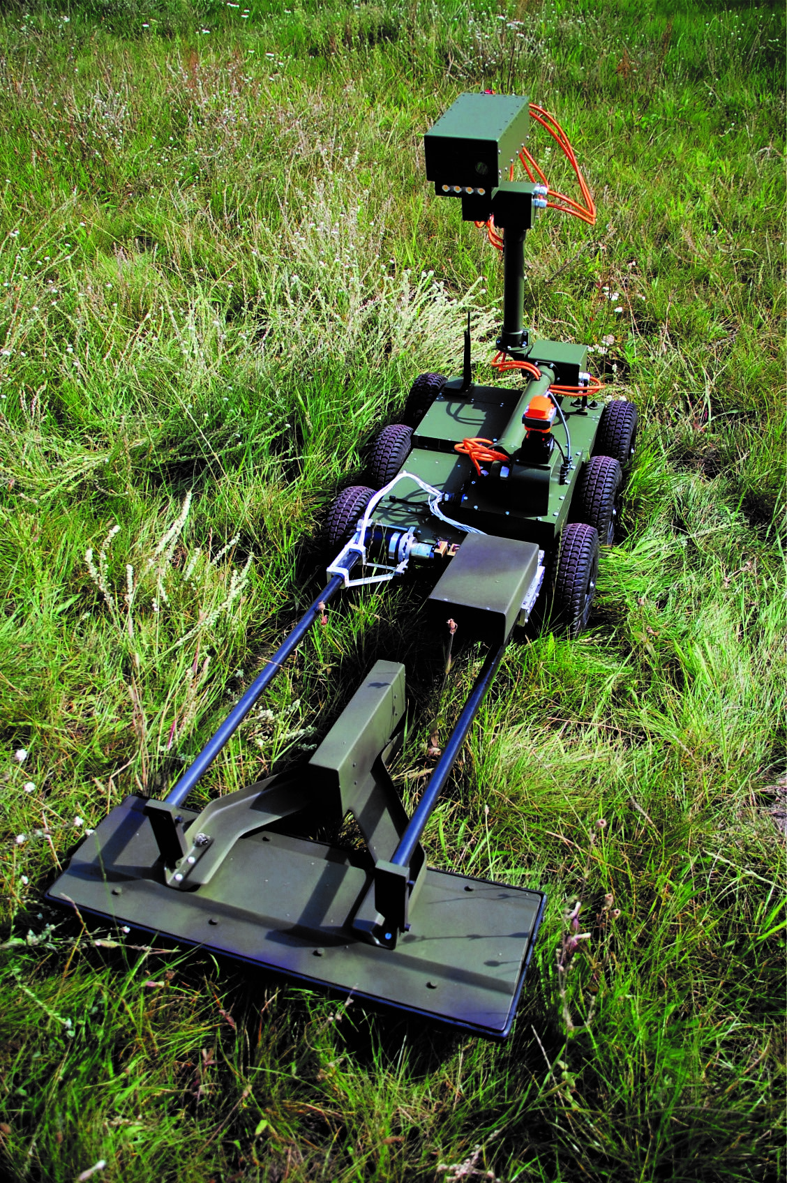 Mobile robot for mine detection and reconnaissance